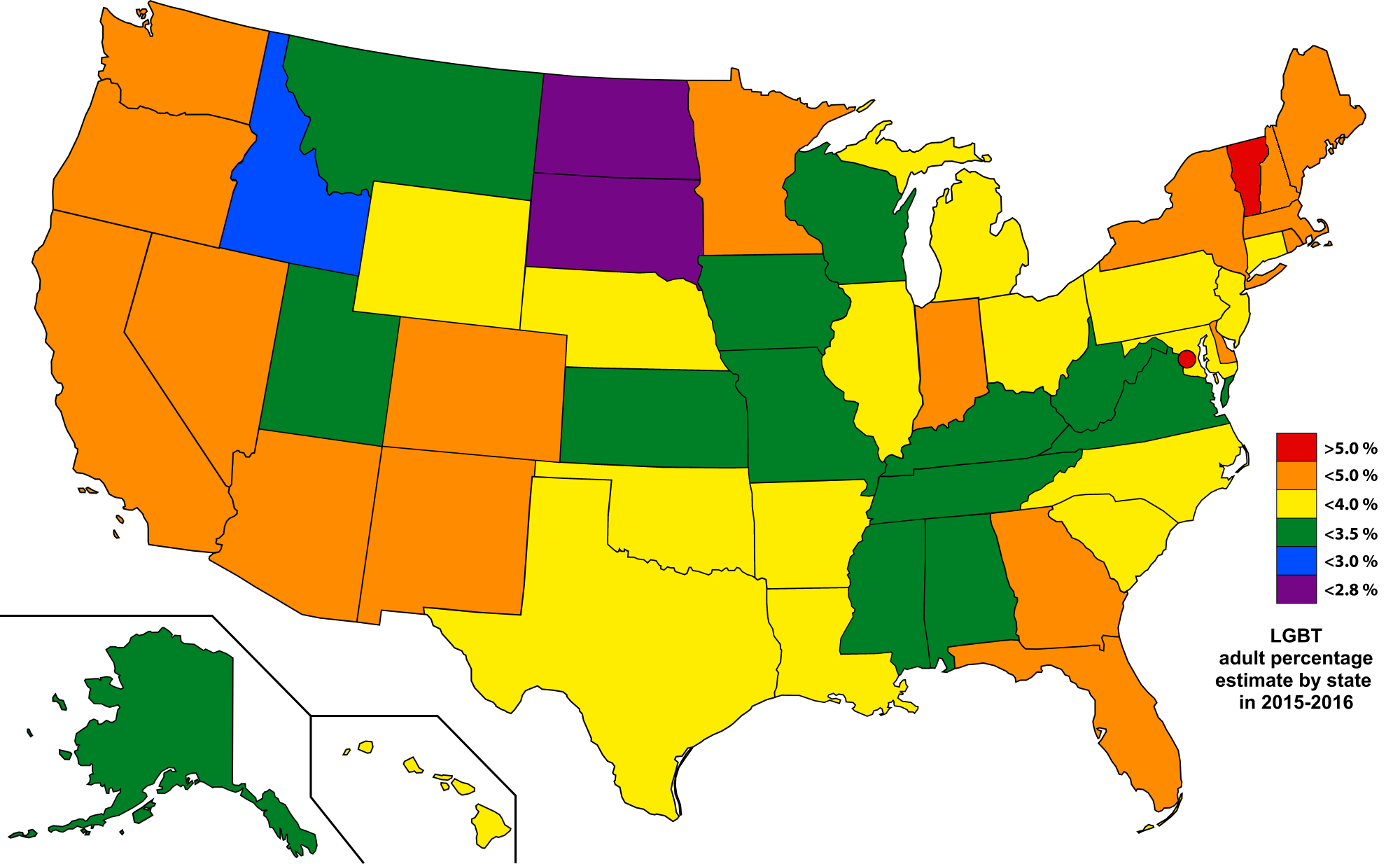 A map of the us categorizing states by estimated adult LGBT percentages in 2015-2016.